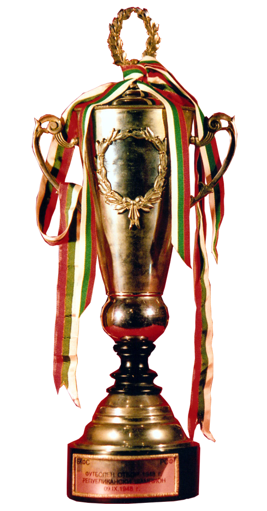 The trophy of Bulgarian Republican Football Championship in 1948